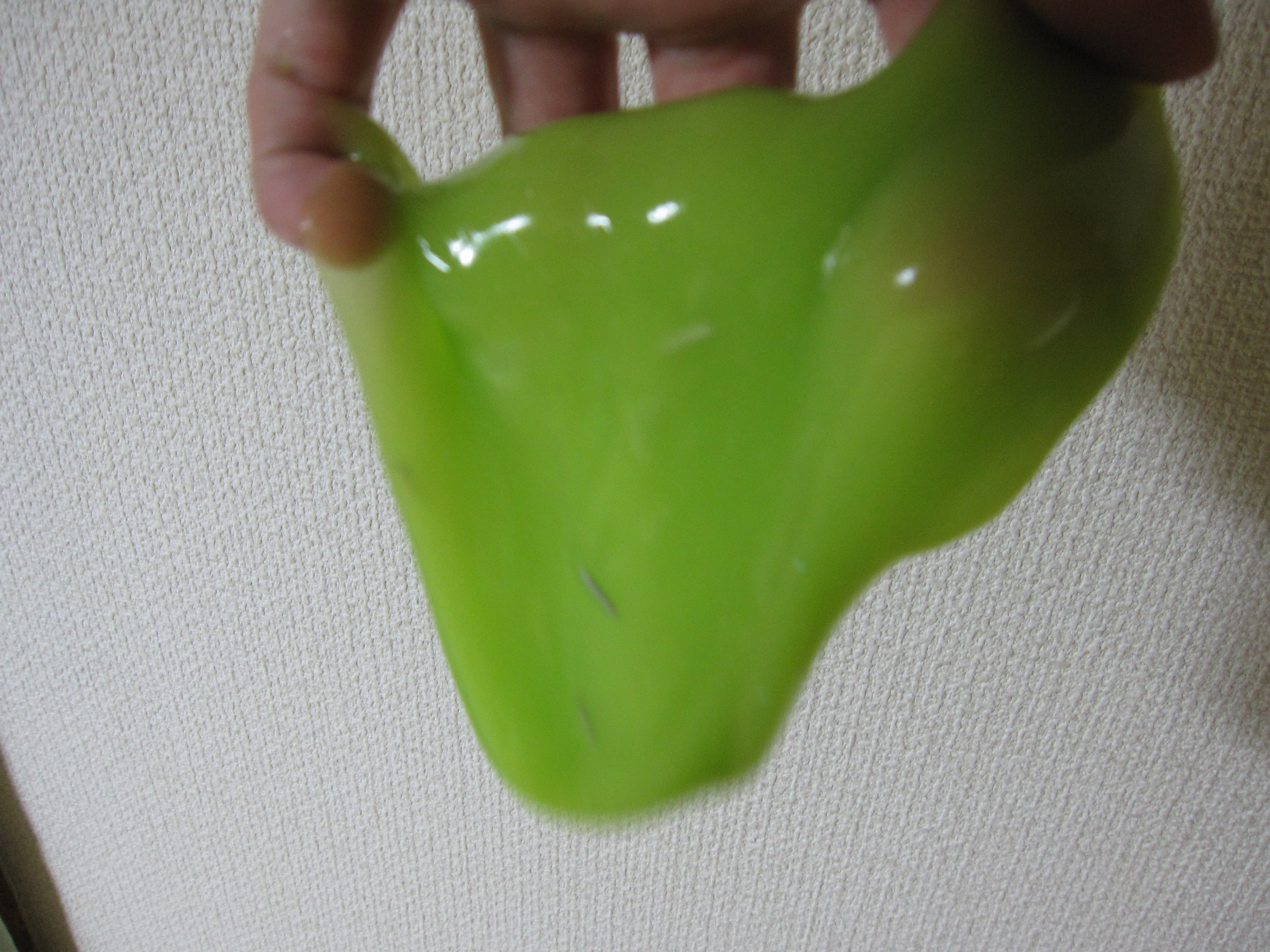 Holding Slime with hand